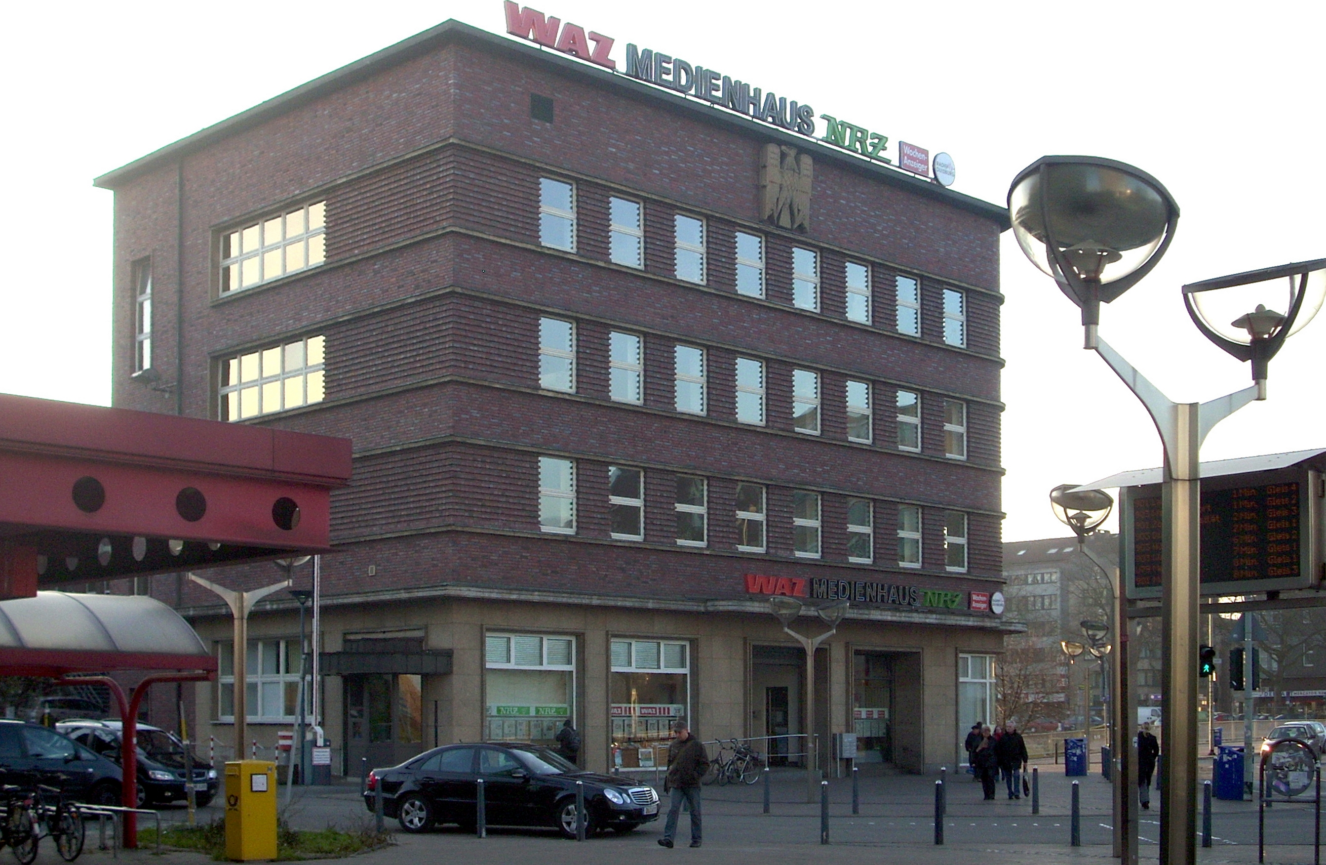 Office of Westdeutsche Allgemeine Zeitung, Neue Ruhrzeitung, Wochenanzeiger and Radio Duisburg in the City of Duisburg